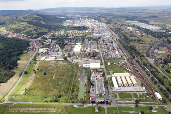 Kazincbarcika, Hungary, aerial photography